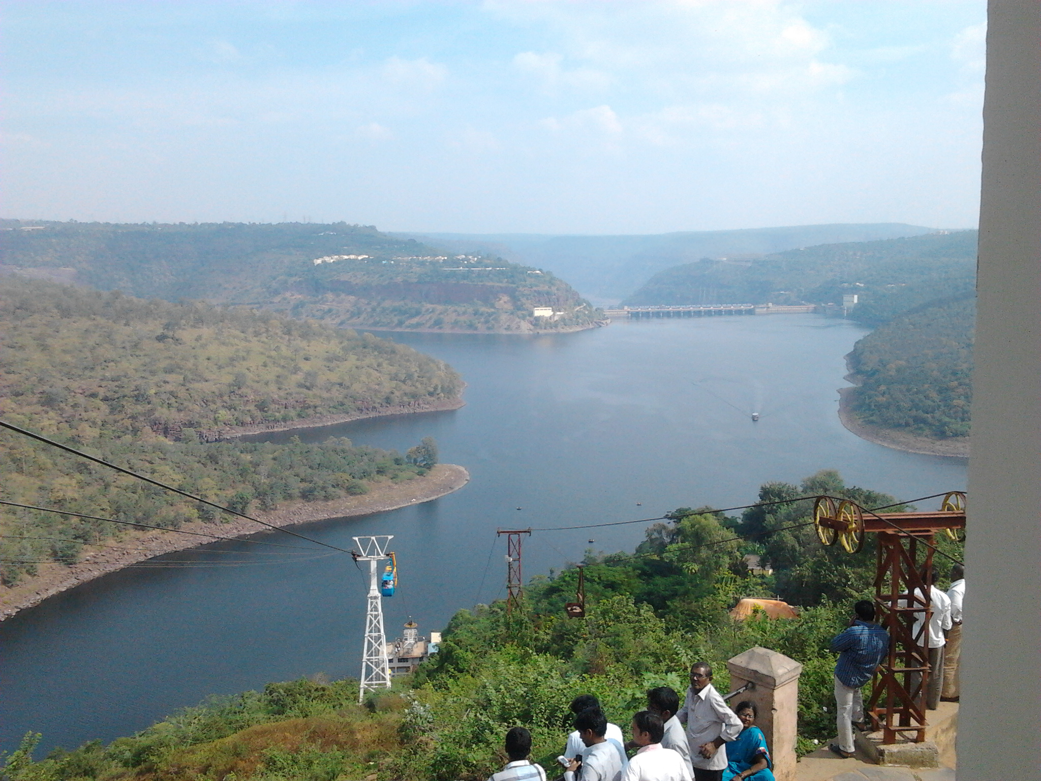 Srisailam Dam and River Krishna